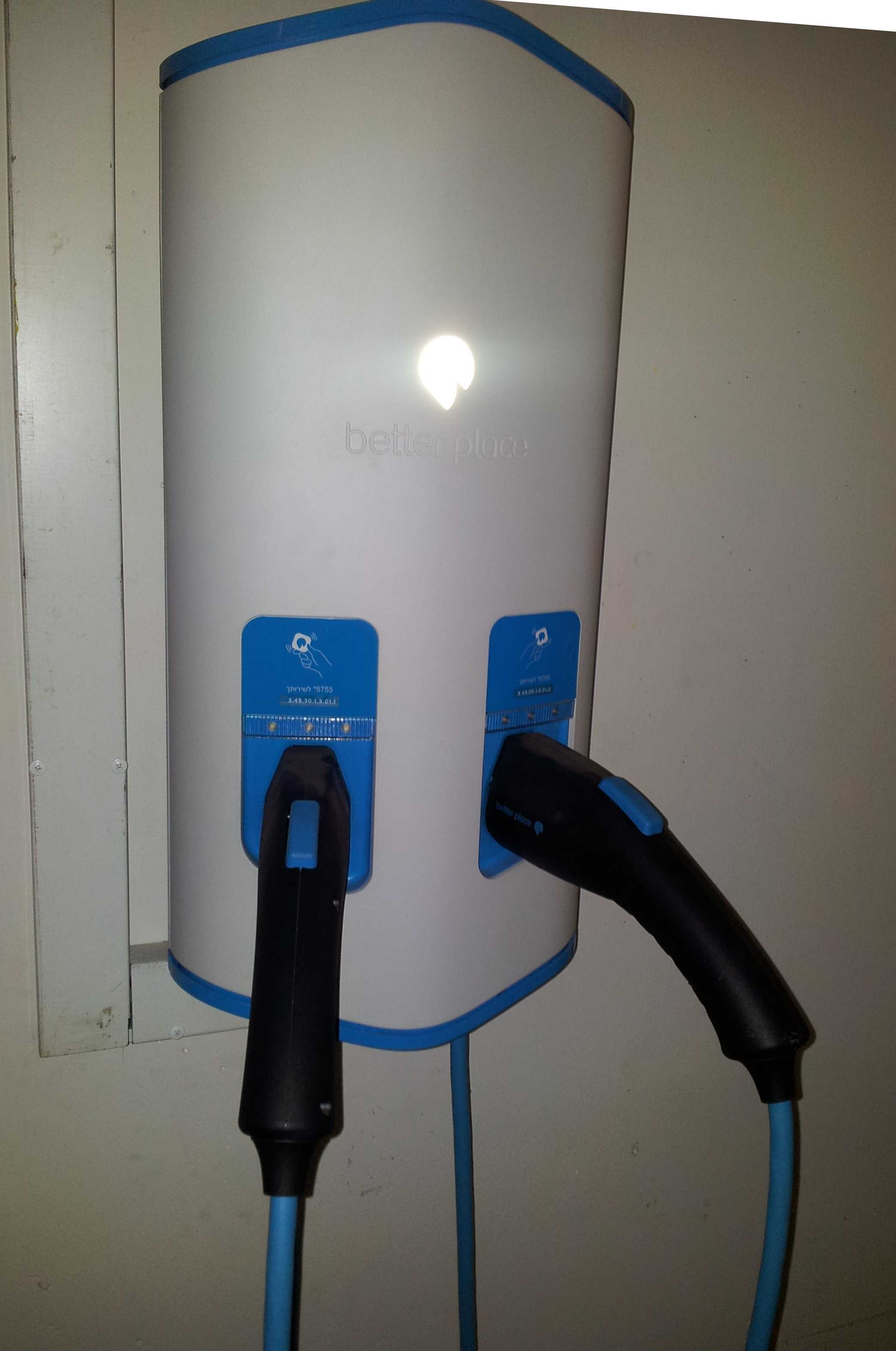 BetterPlace Charging Station in Public Parking lot in Jerusalem